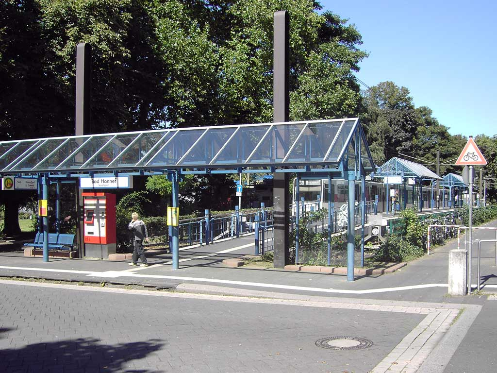 City railway stop Bad Honnef, the terminus of the city railway line 66. This line is part of the city railway Bonn.